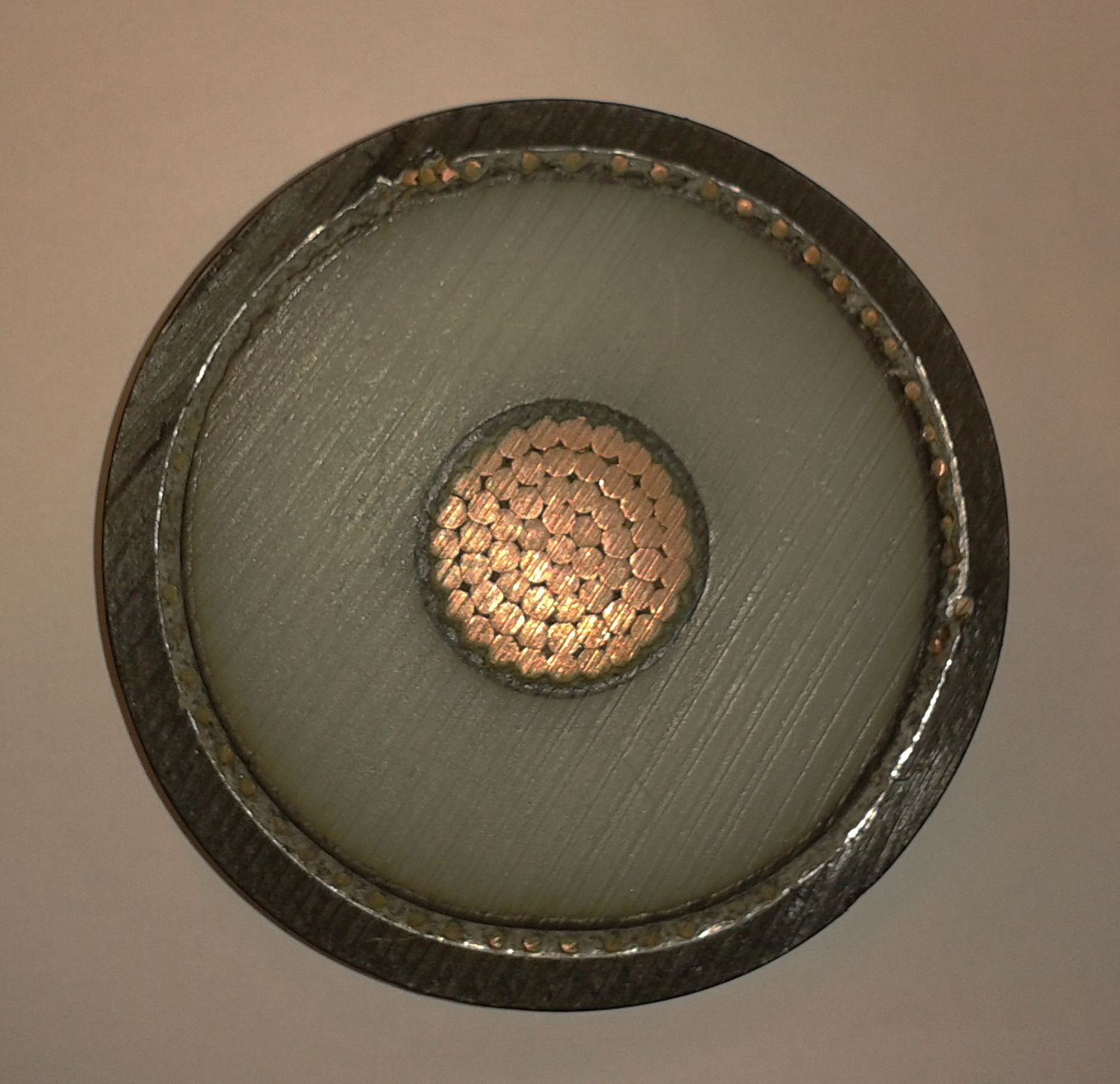 High voltage cable for 220 kV in cross section (from the pumped storage power plant Kopswerk II in Montafon, Vorarlberg, Austria)